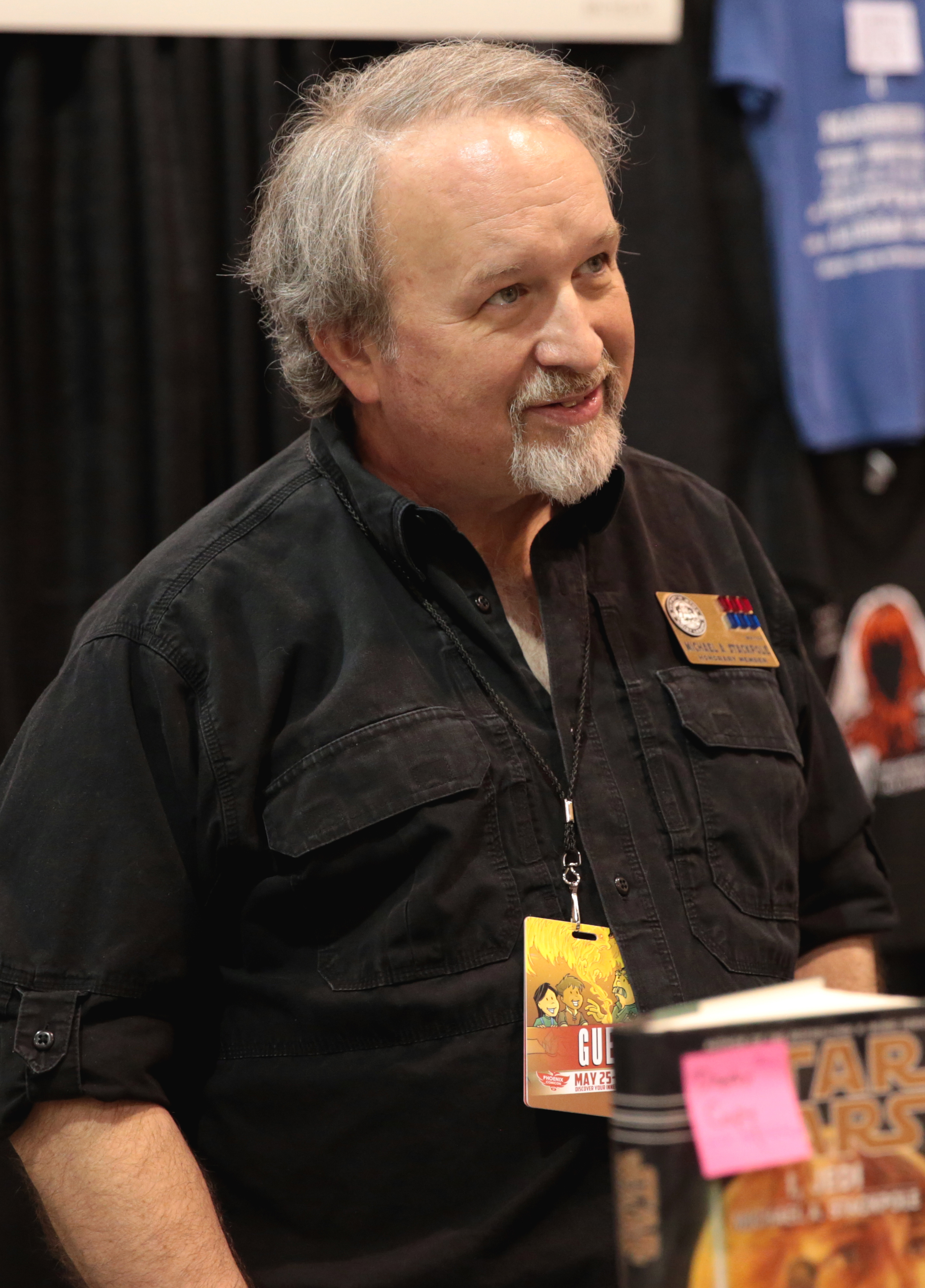 Michael Stackpole speaking at the 2017 Phoenix Comicon in Phoenix, Arizona.